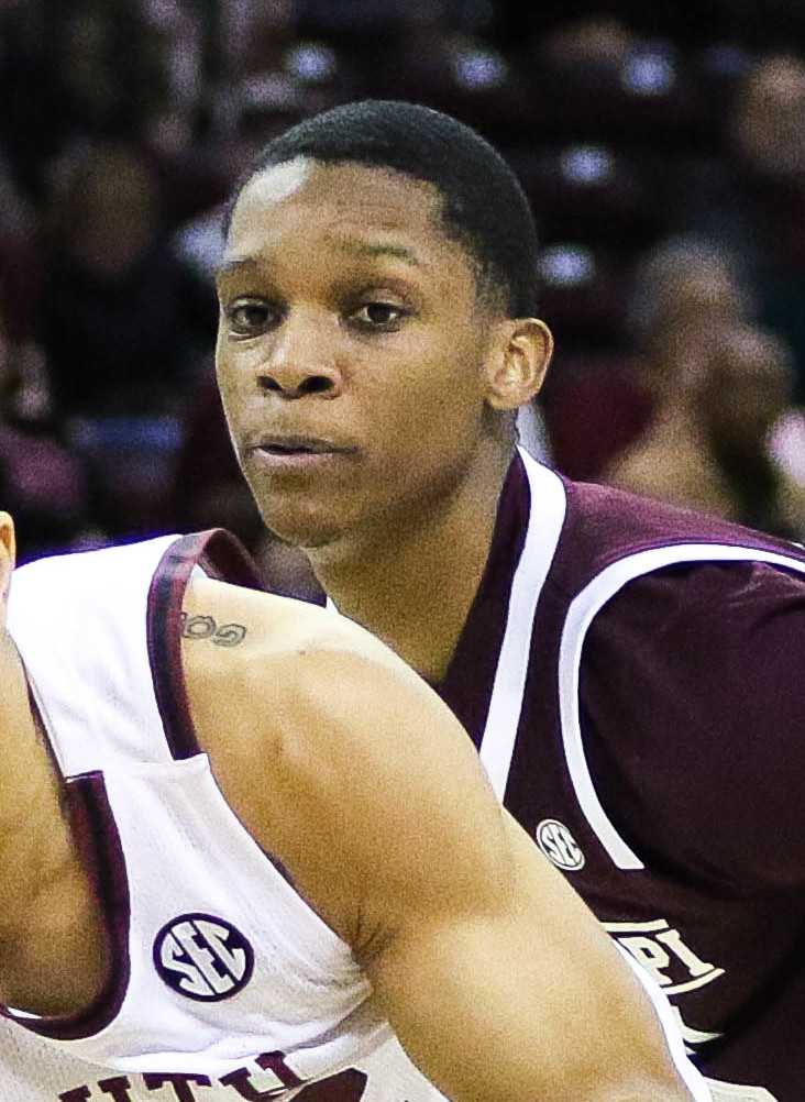 Jair Bolden defended by Iverson Molinar and Tyson Carter in March 2020